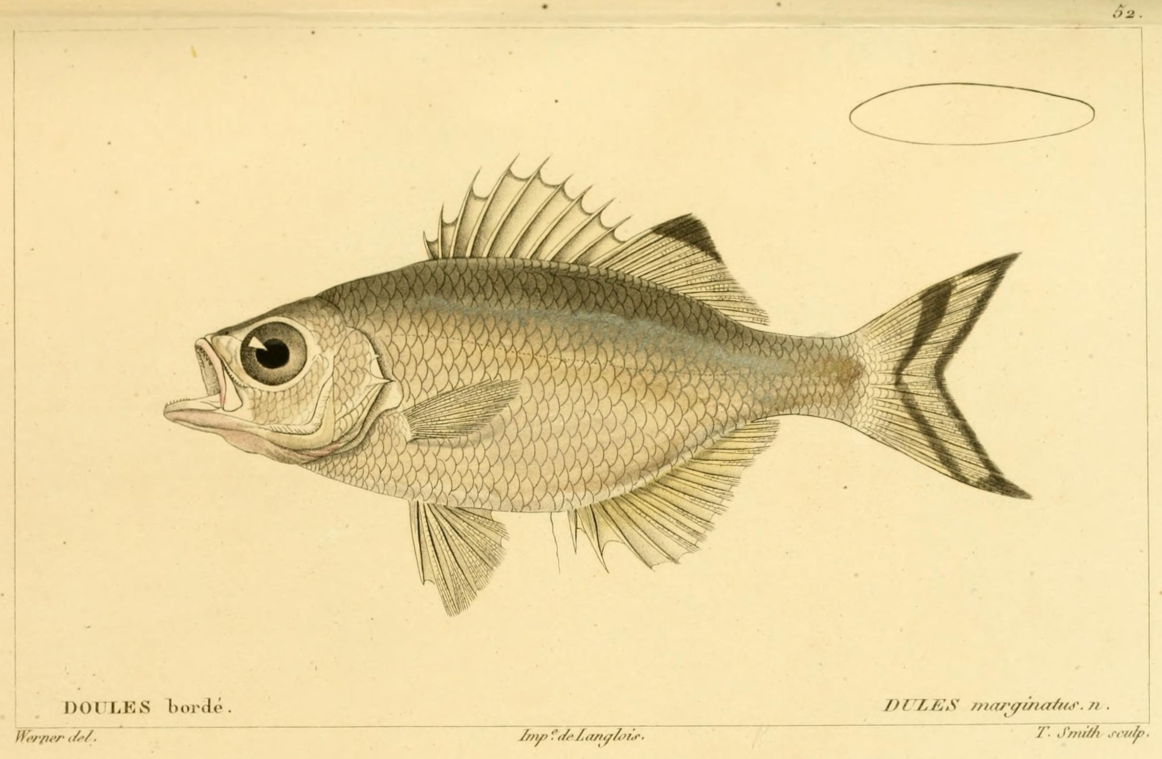 Kuhlia marginata syn Dules marginatus from Histoire naturelle des poissons, Paris, Chez F. G. Levrault,1828-1849.